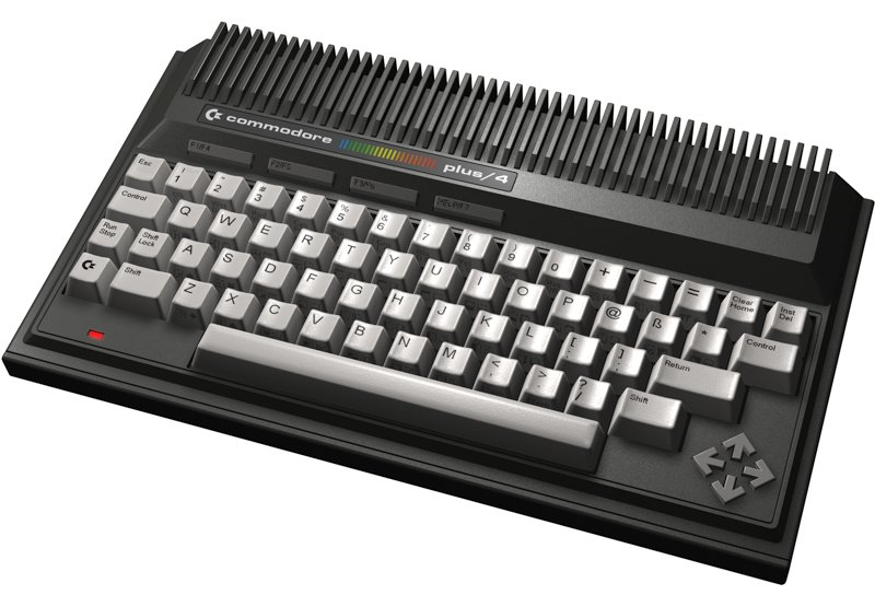 Rendered model of the Commodore Plus/4 personal computer. By Thorsten Kuphaldt, Commodore Computer Online Museum.